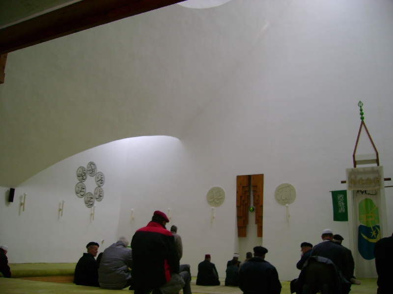 Interior of Sherefudin's White Mosque in Visoko